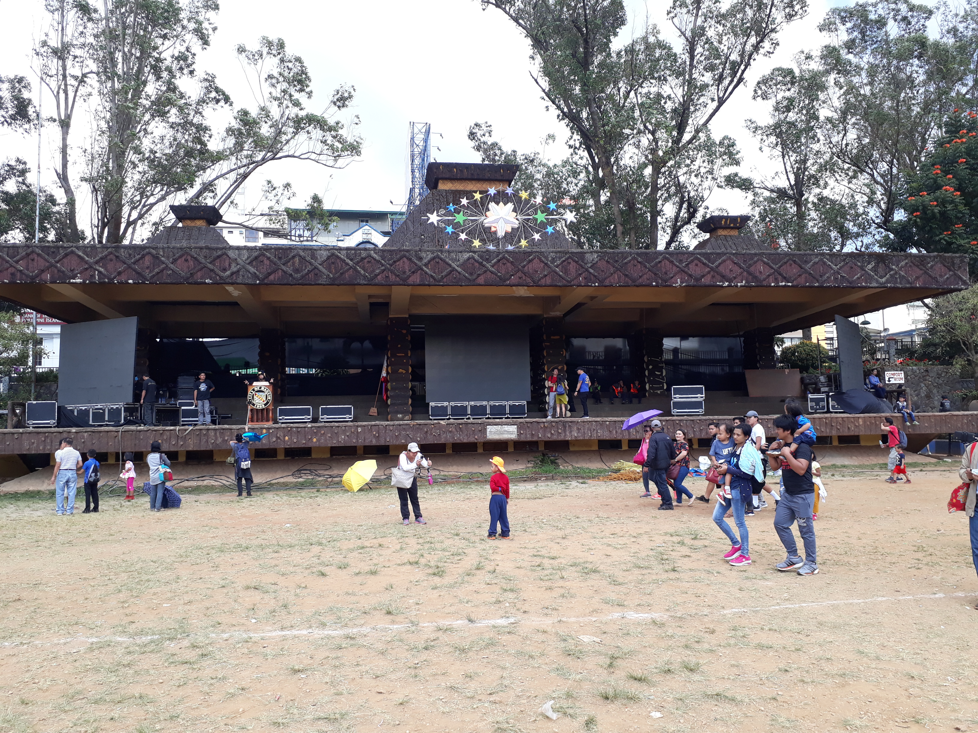 Grandstand of Burnham Park Reservation in Baguio City, Benguet